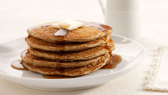 Stack of original pancakes